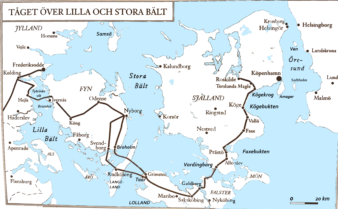 Map of the March Across the Belts in 1658.